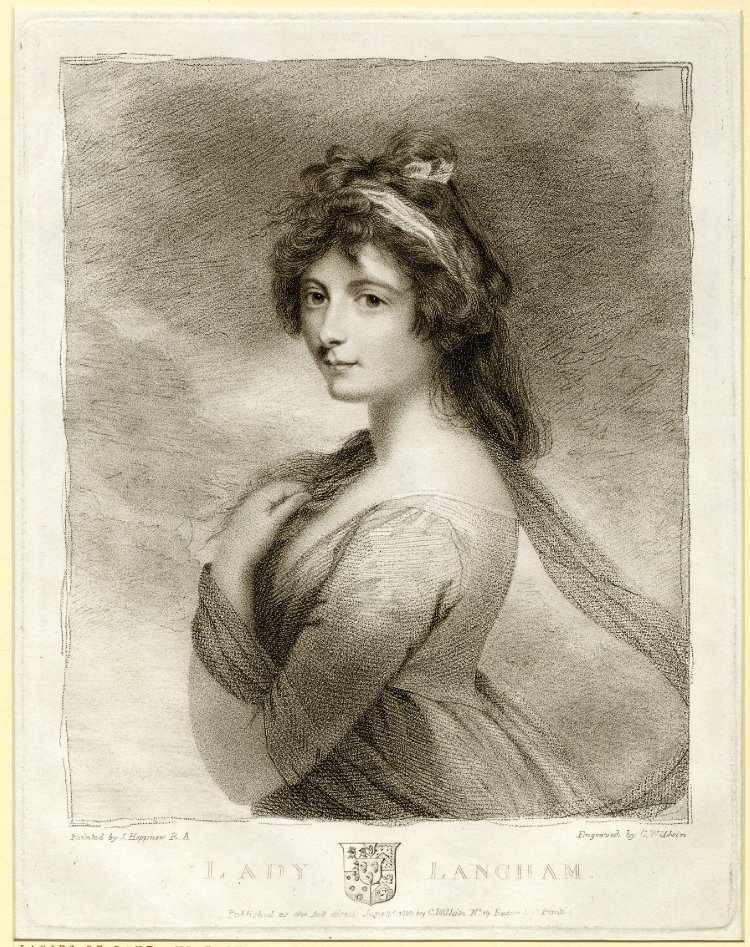 Ladies of Rank and Fashion: Henrietta Elizabeth Frederica, Lady Langham(1780 - November 1809), only daughter of the Hon. Charles Vane, by Elizabeth, daughter of Richard Wood, Esq. of Hollin, in the County of York, wife of Sir William Langham, 8th Baronet (1771-1812). The heraldic escutcheon at base shows the quartered arms of Langham with inescutcheon of pretence of Vane.